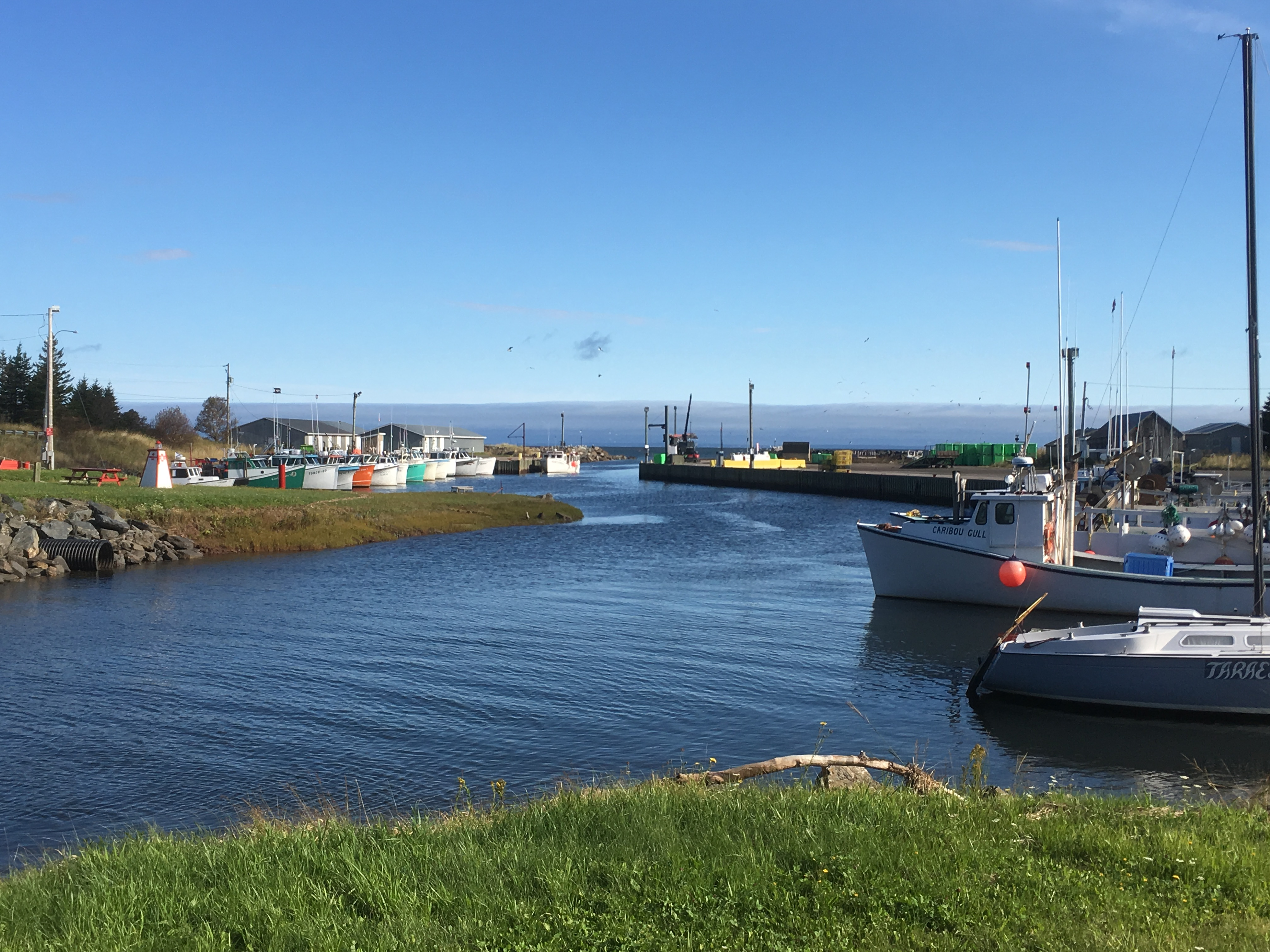 View looking seaward along the Toney River estuary.